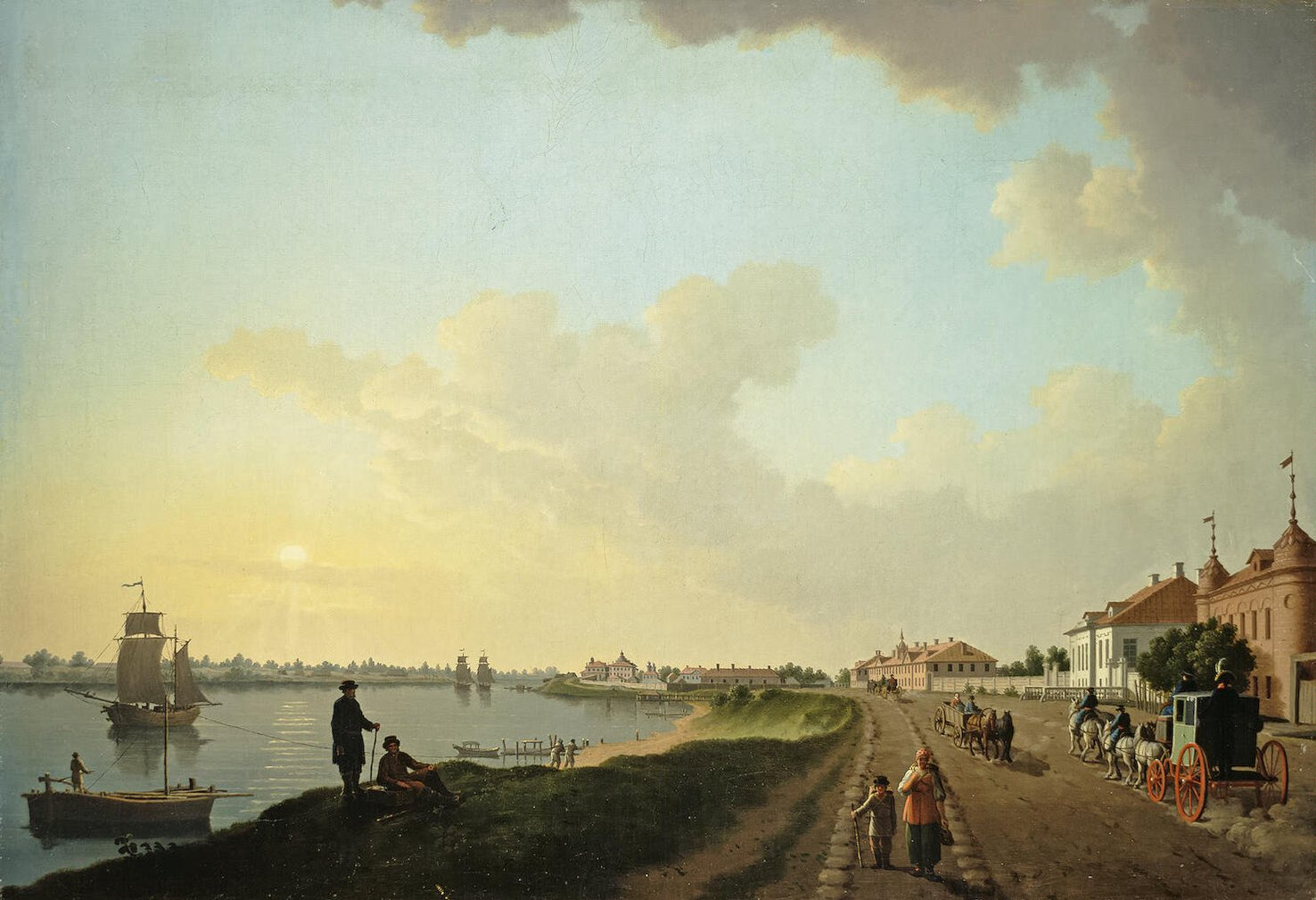 The Outskirts of St Petersburg near the Porcelain Factorylabel QS:Len,"The Outskirts of St Petersburg near the Porcelain Factory"label QS:Lru,"Вид окраины Петербурга у фарфорового завода"